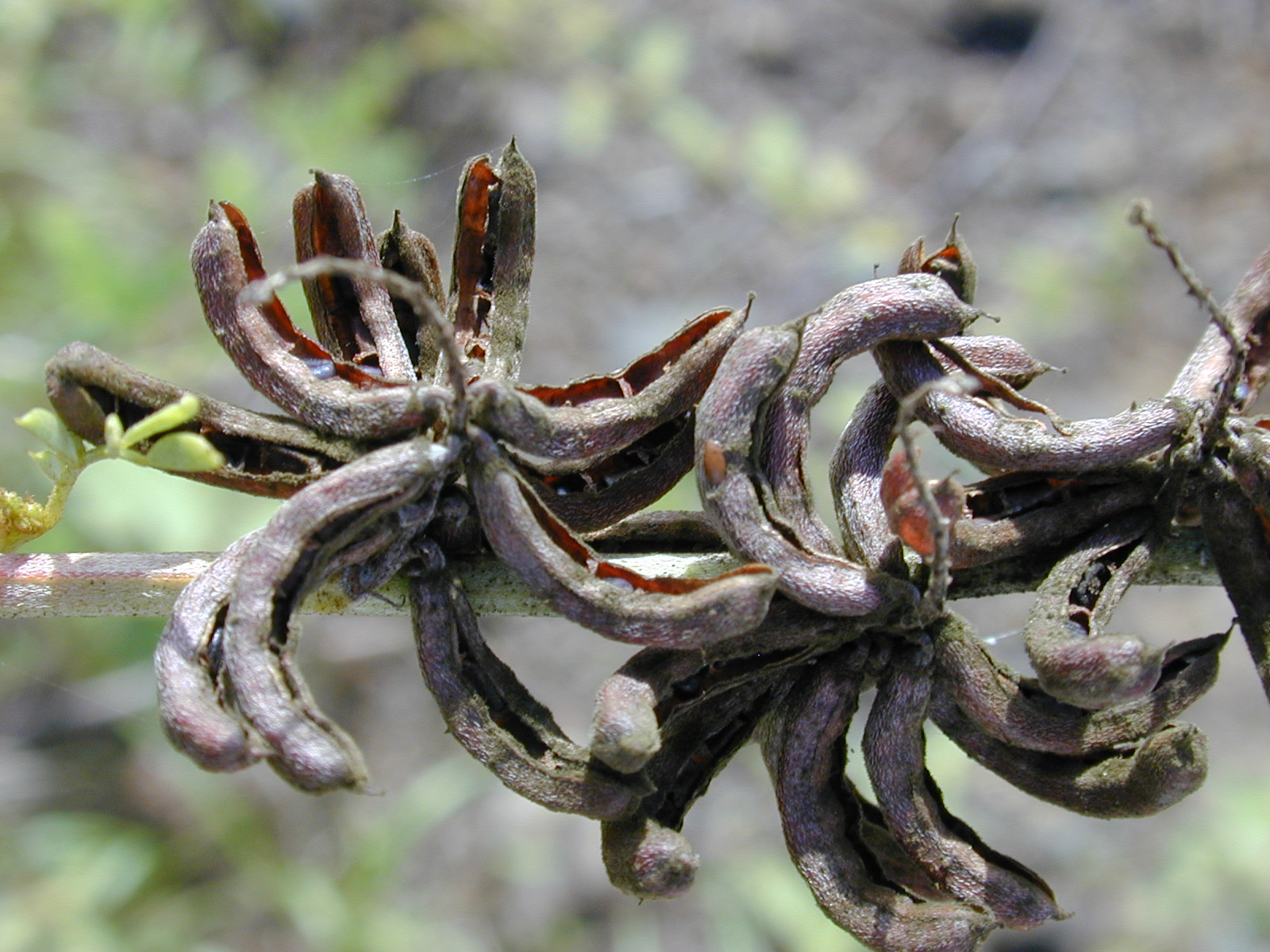 Indigofera suffruticosa (seeds). Location: Maui, Wailea 670